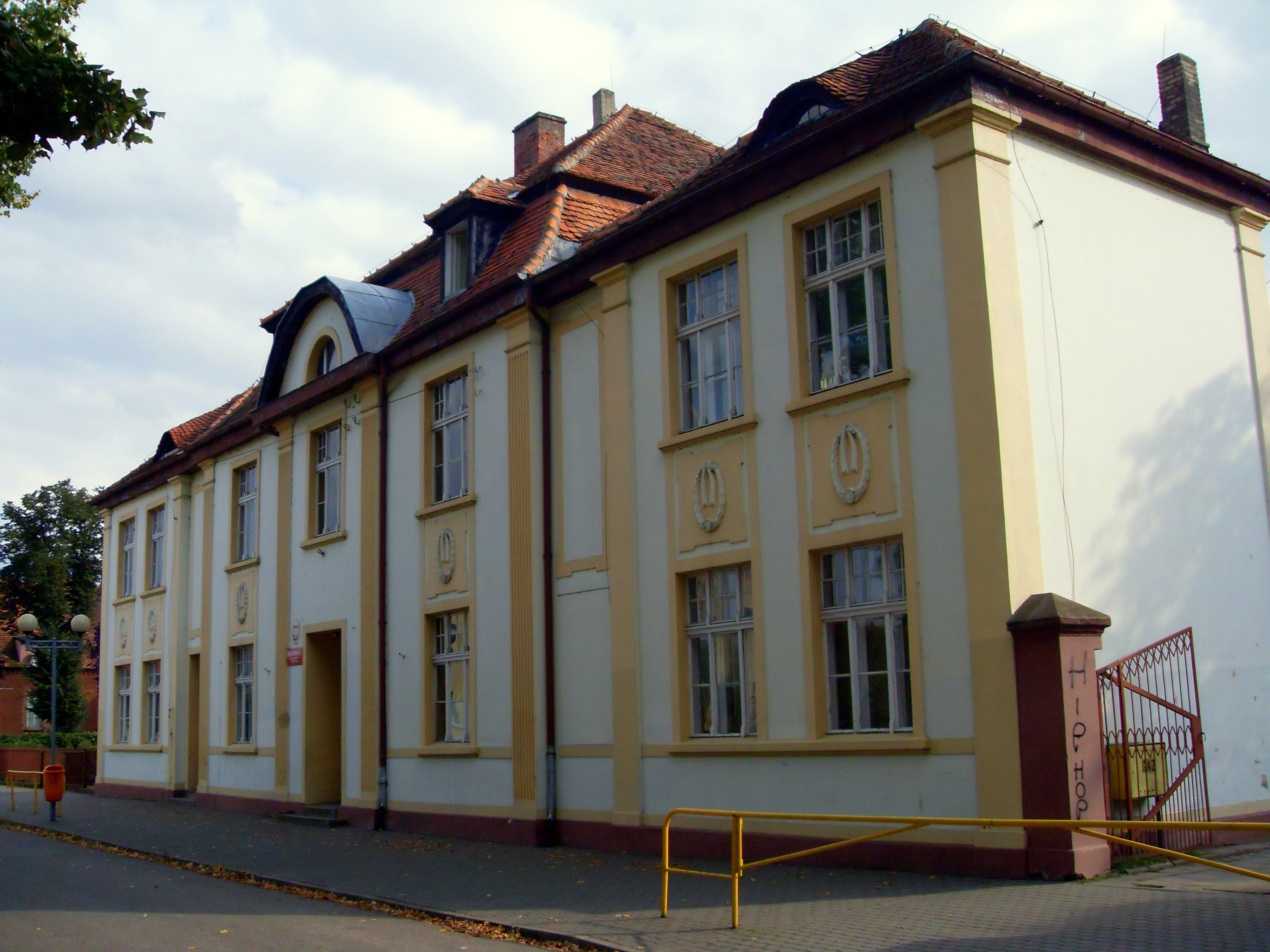 School in Wągrowiec